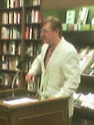 Thomas Frank